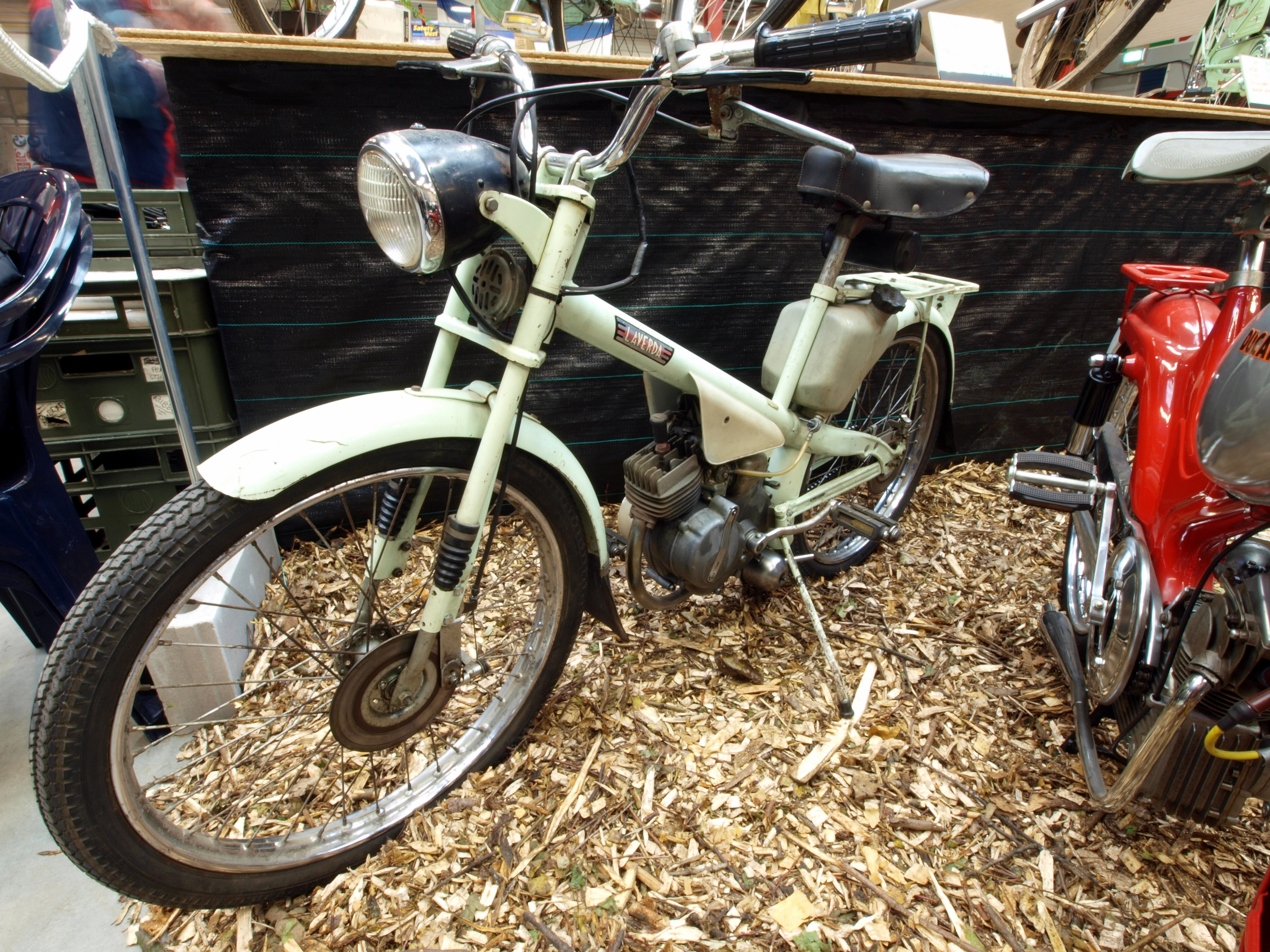 Photographed at the Bromfietsshow Bollenstreek 2010, The Netherlands.